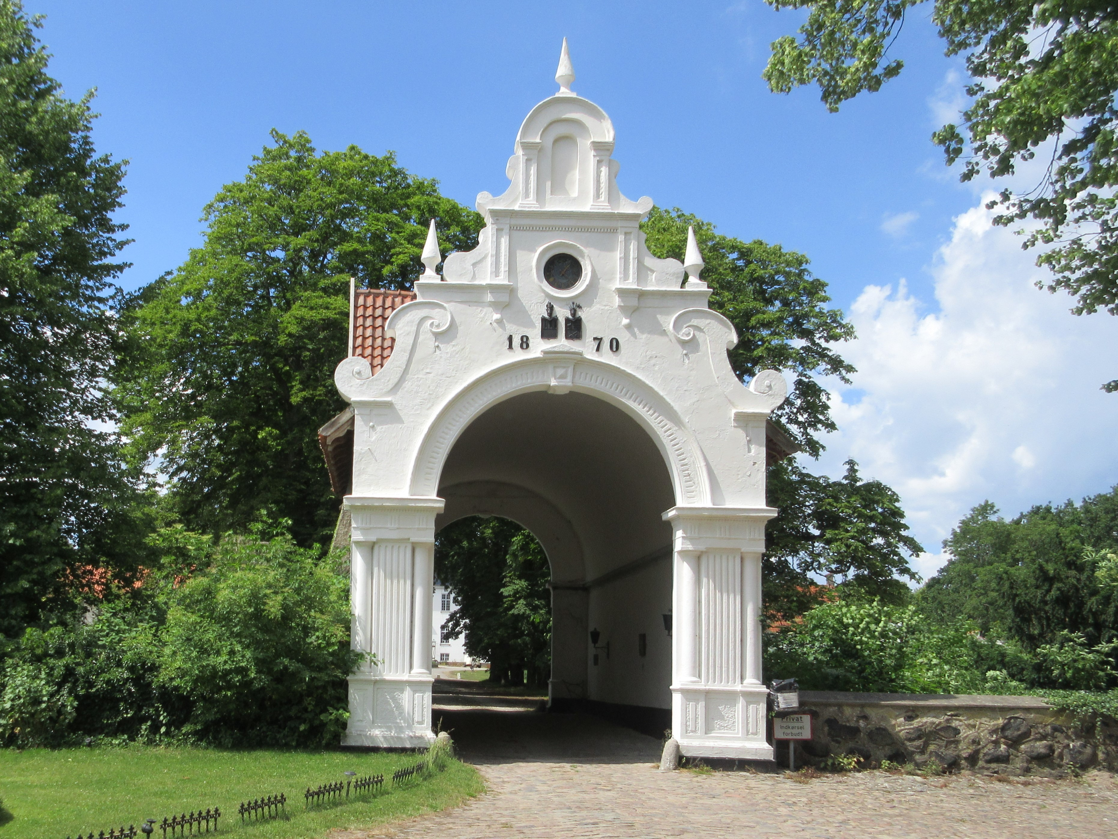 The gatehouse of Egholm Slot at Skibby, Denmark